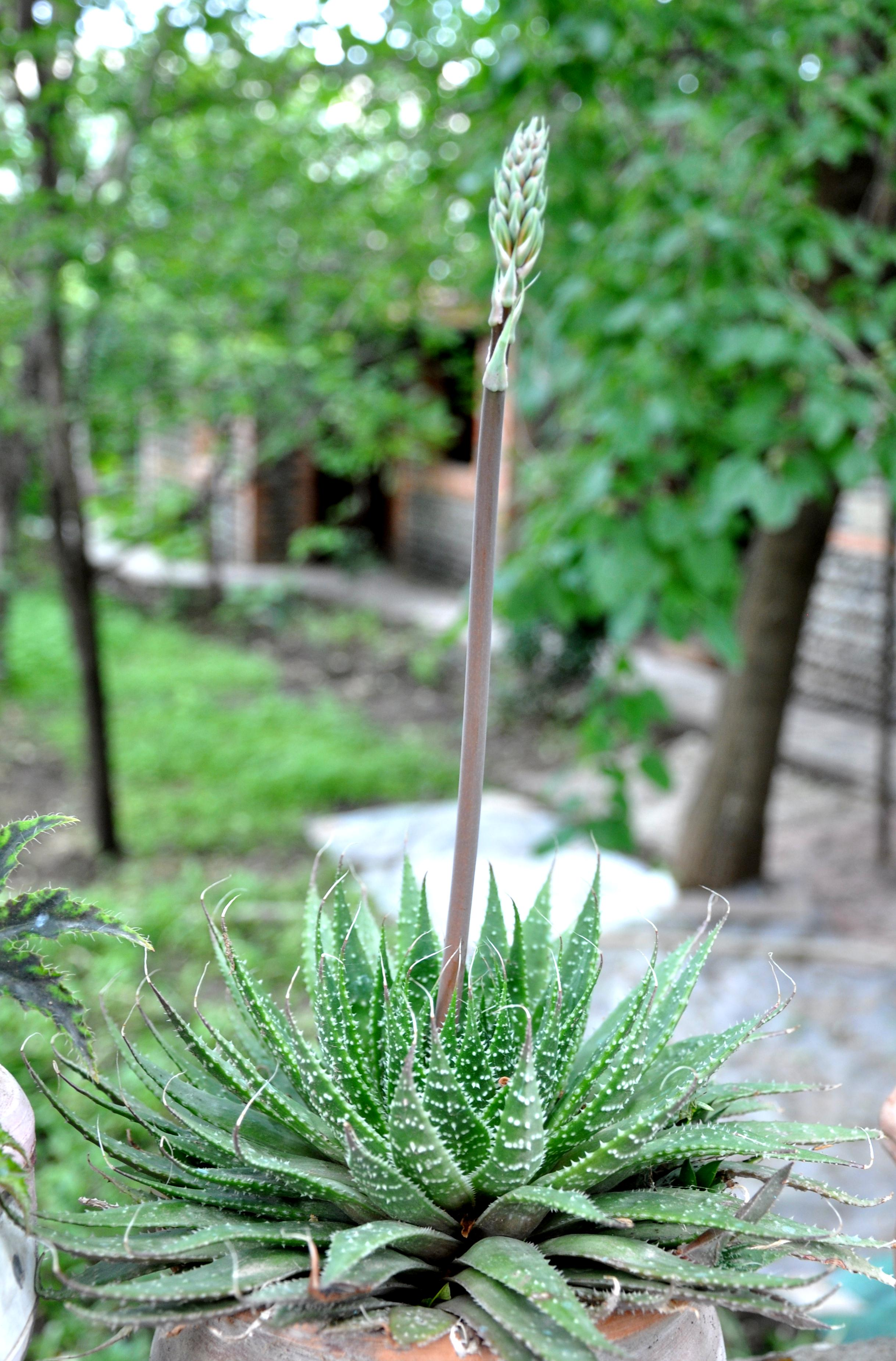 Jerusalem